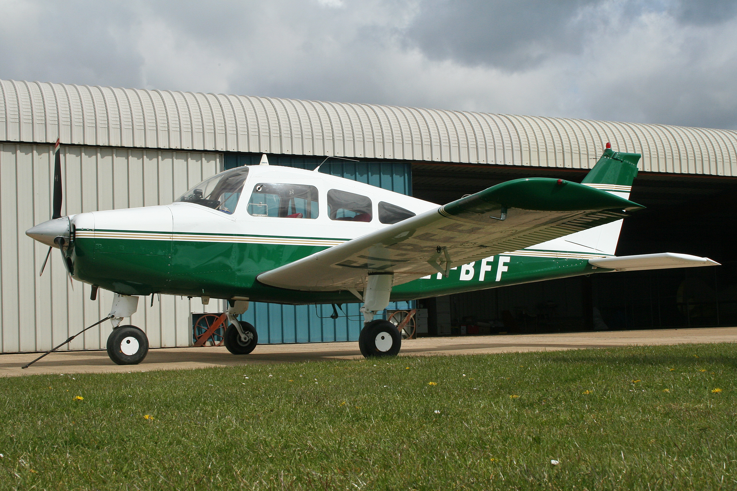 msn MA-352. A resident aircraft seen at the 2012 VAC & Daffodil Fly-in. Fenland Airfield. 14-4-2012